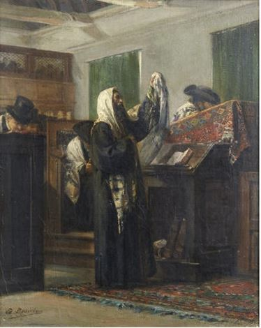 Shema Yisreal